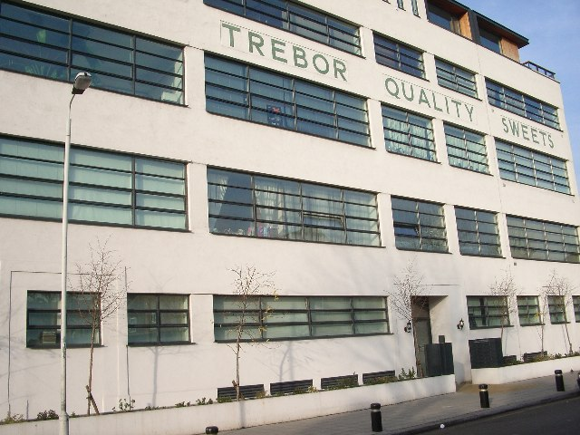 A sweet place to live. The former Trebor sweets factory in East Ham, E7, has been converted to modern apartments.